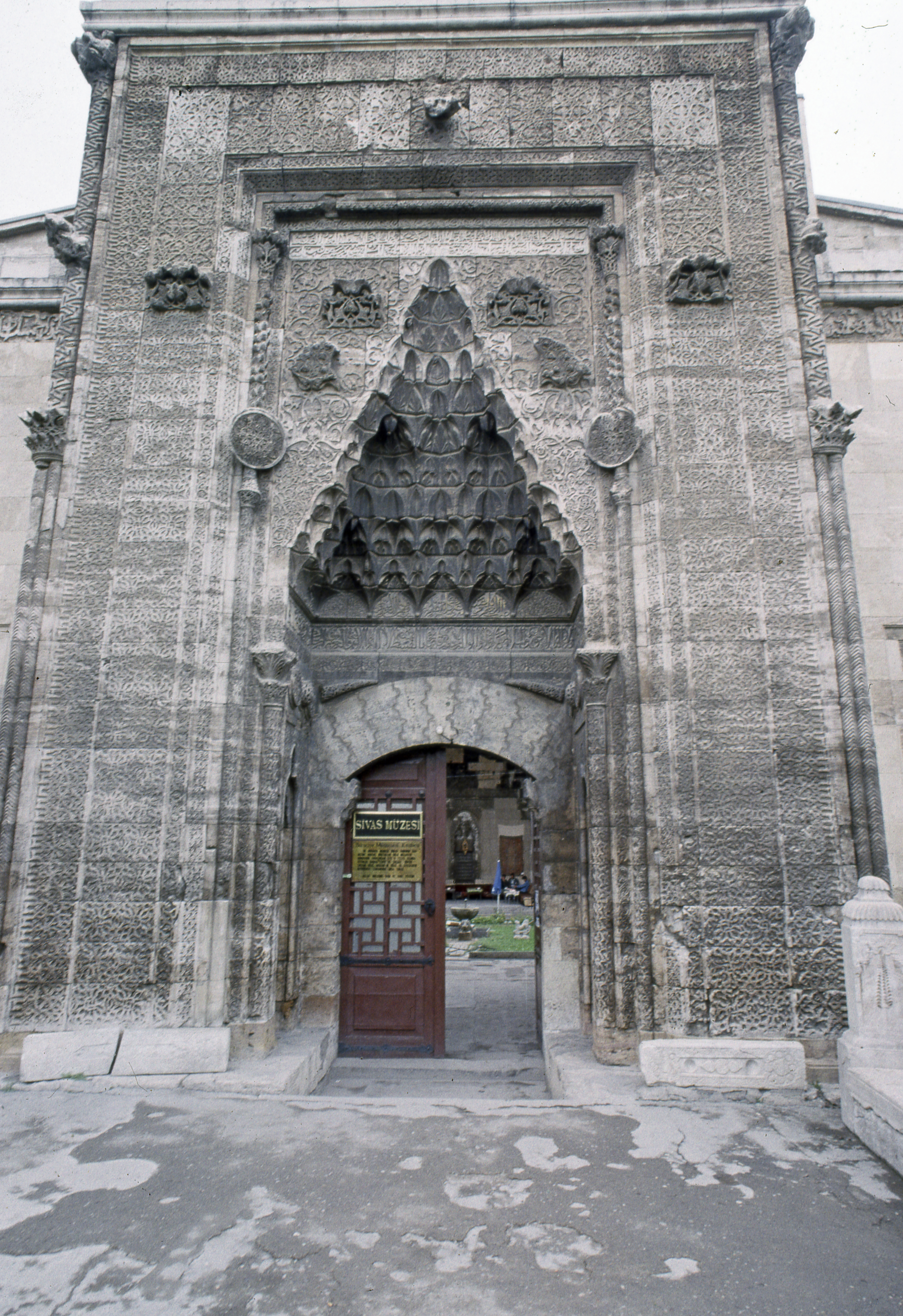 I quote from the notice at its entrance: Muzafer Burucerdi, who came from the area of Hamedan in Iran and settled down in Sivas was one of the richest people in Sivas. The Bürüciye Medrese was built under his orders in 1271 to teach positive science. The medrese which has an open courtyard and four eyvans (three walled vaulted antechambers) is one of the most beautiful examples of Seljuk stonework. The notice mentions a tomb of the founder and his two children with very fine tiles.